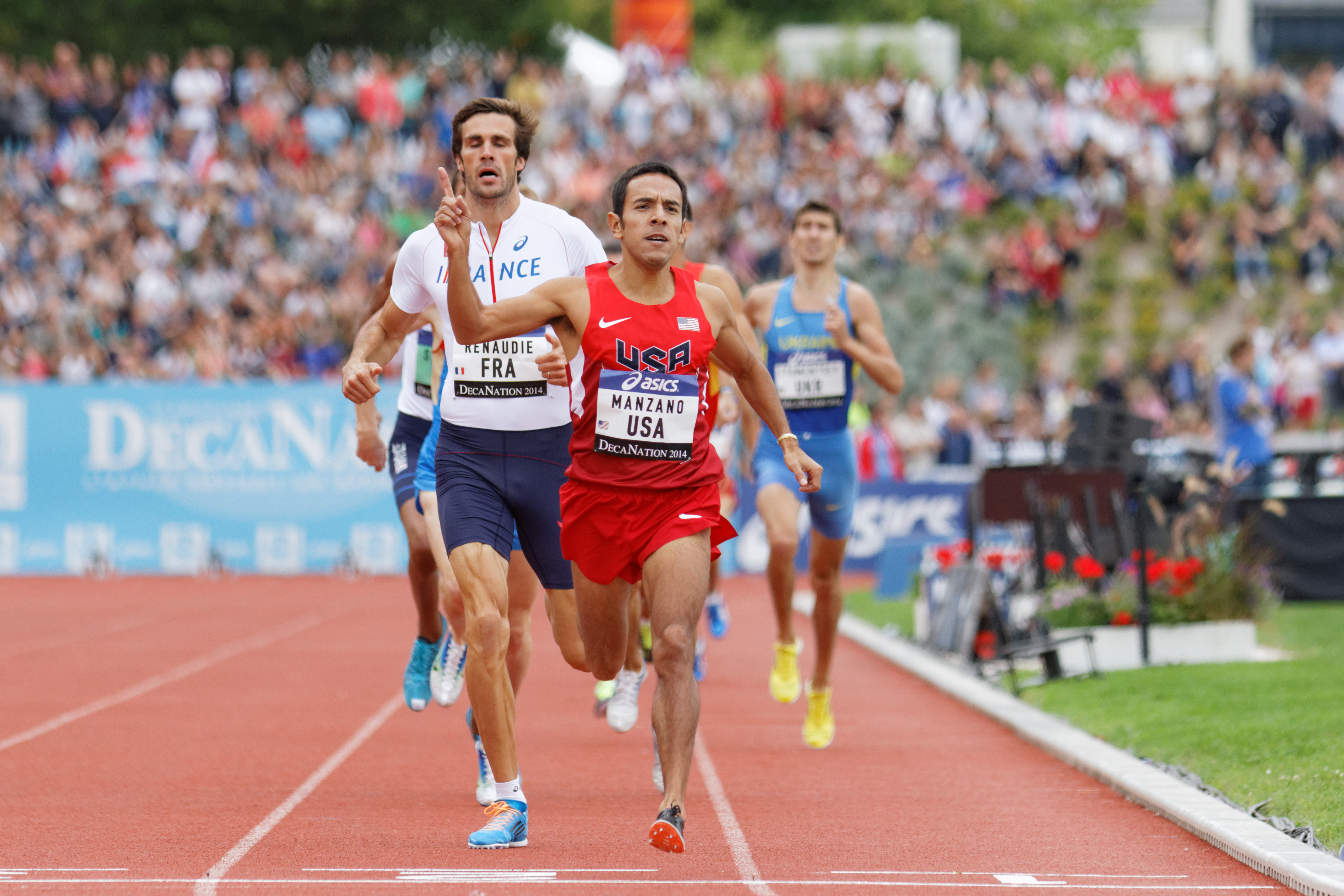 American Leonel Manzano (front) wins the 800 m competition at the 2014 DécaNation. Paul Renaudie (behind) of France finished second.